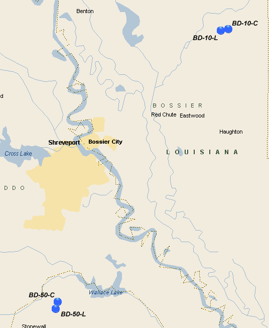 Barksdale AFB Defense Area Nike Missile Sites